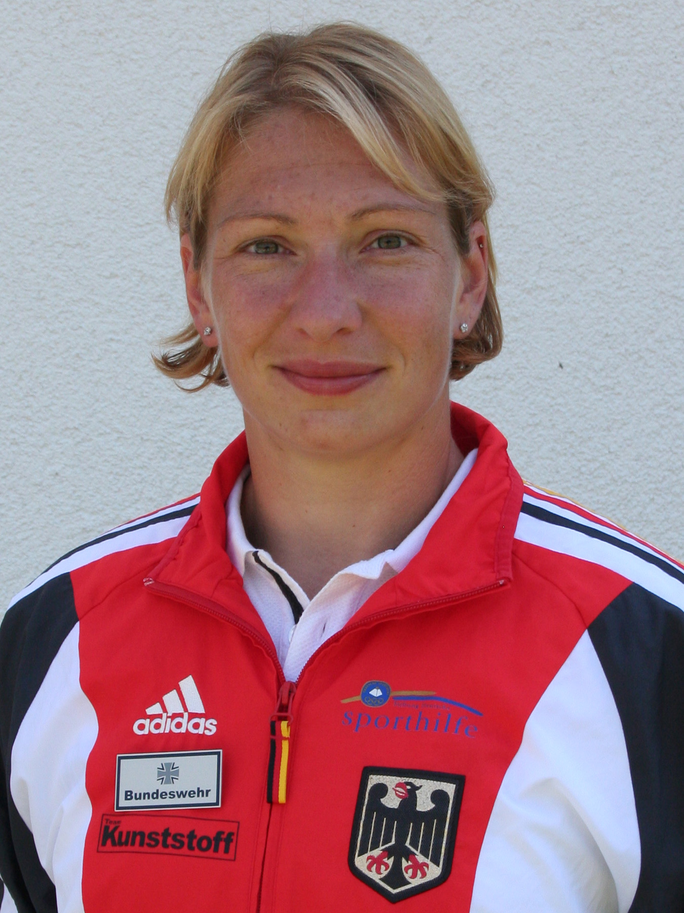 Katrin Wagner-Augustin Olympic Champion Canoe Sprint